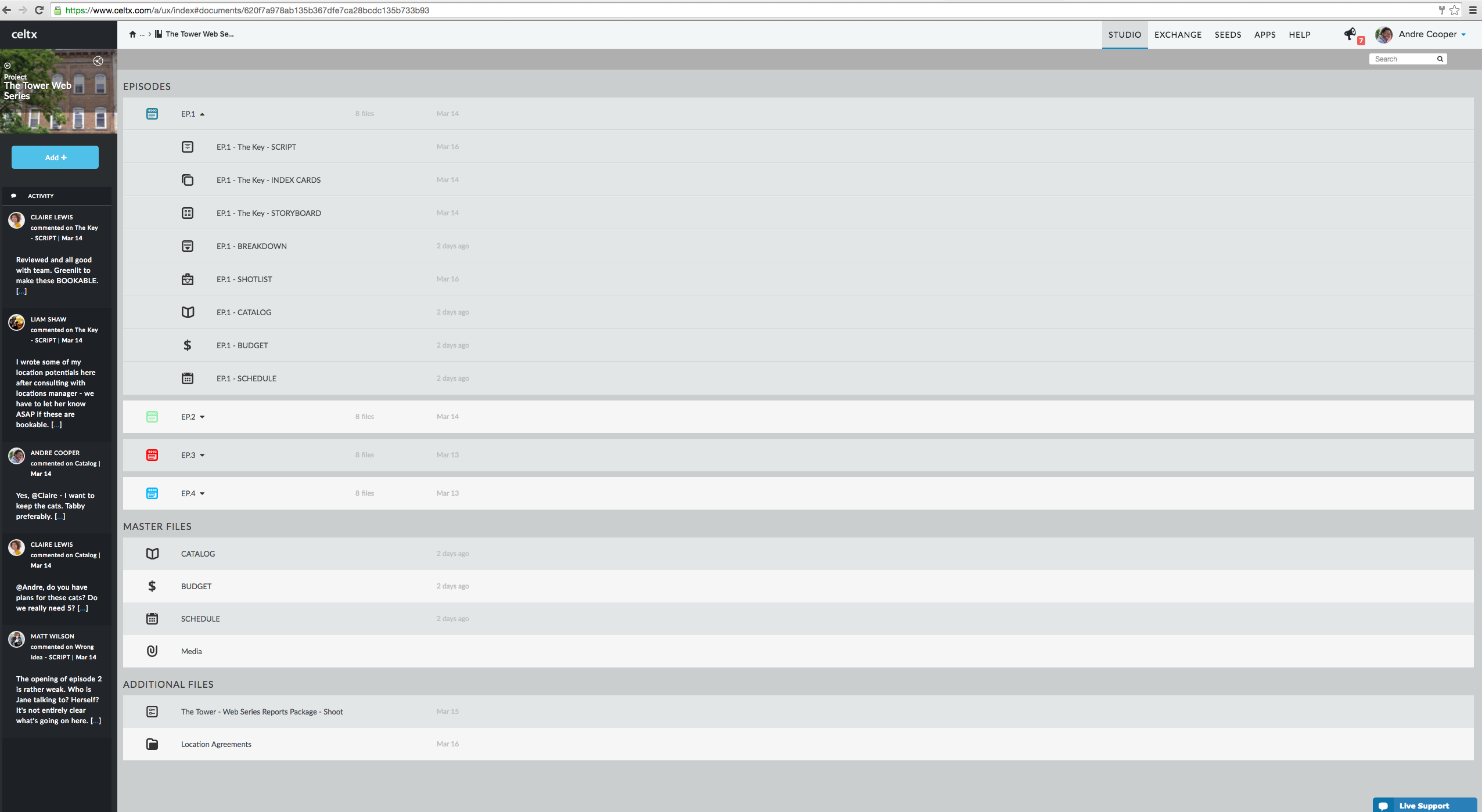 A screenshot of a pre-production project in Celtx Studio.